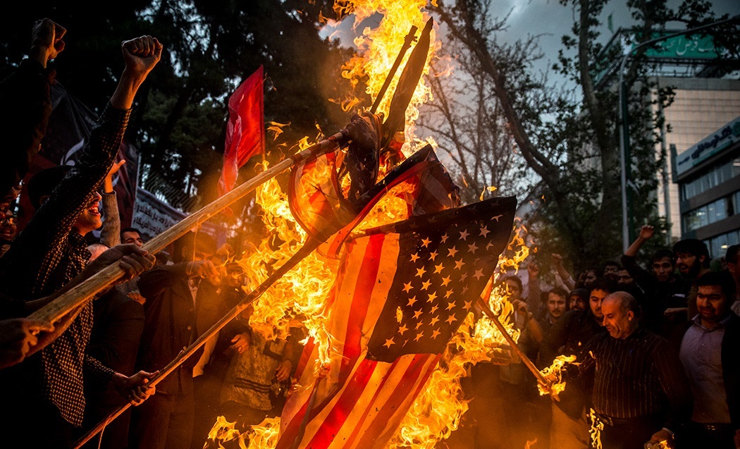 Protests after US decision to withdraw from JCPOA, front of former US embassy, Tehran main album